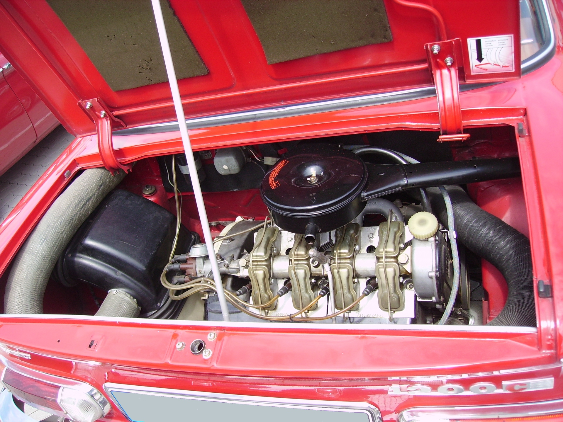 Rear engine of a NSU Prinz 1200 C